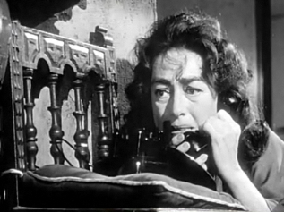 Cropped screenshot of Joan Crawford from the film Category:Whatever Happened to Baby Jane? (film)